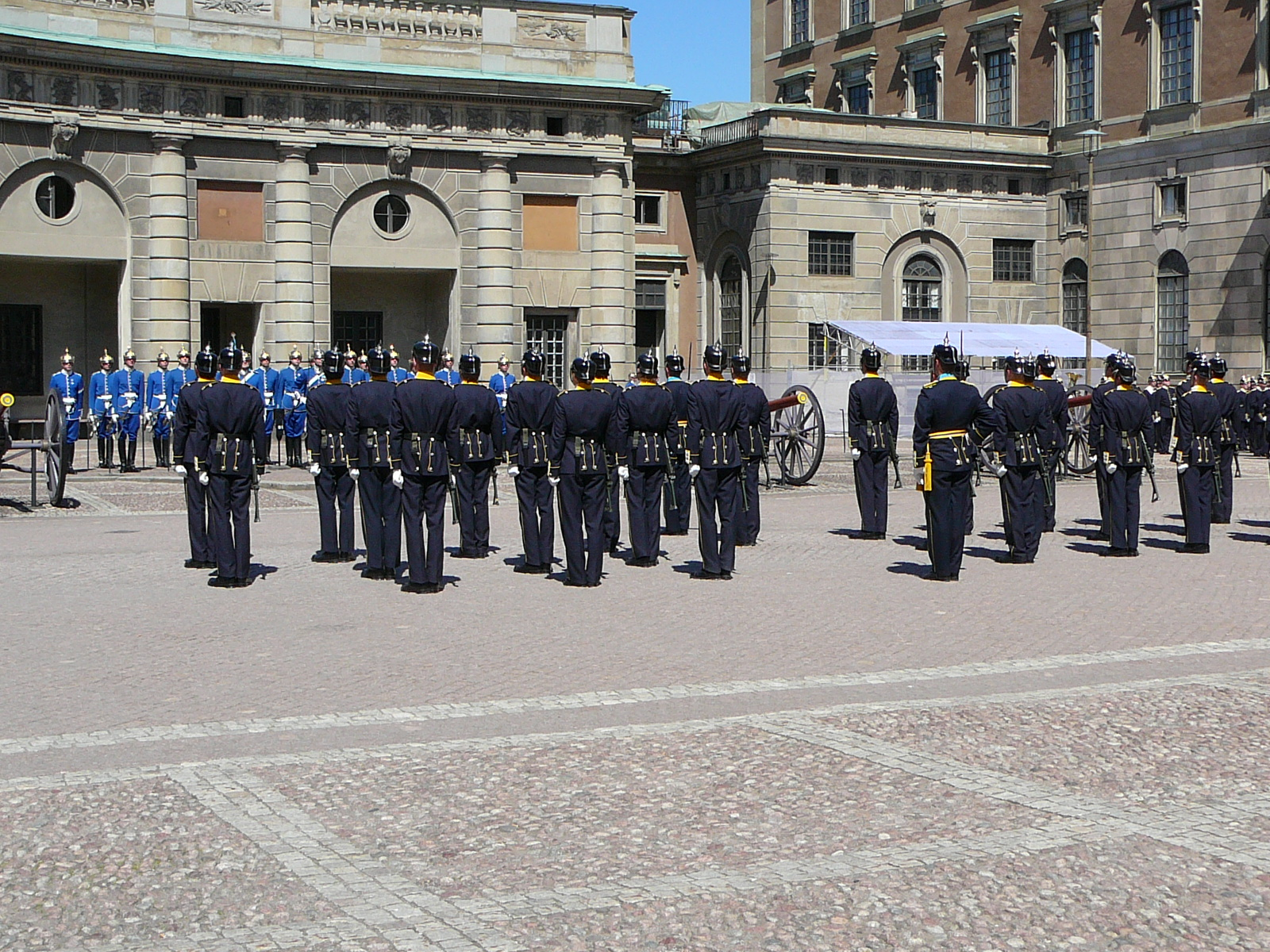 Changing the guard at Stockholm Palace